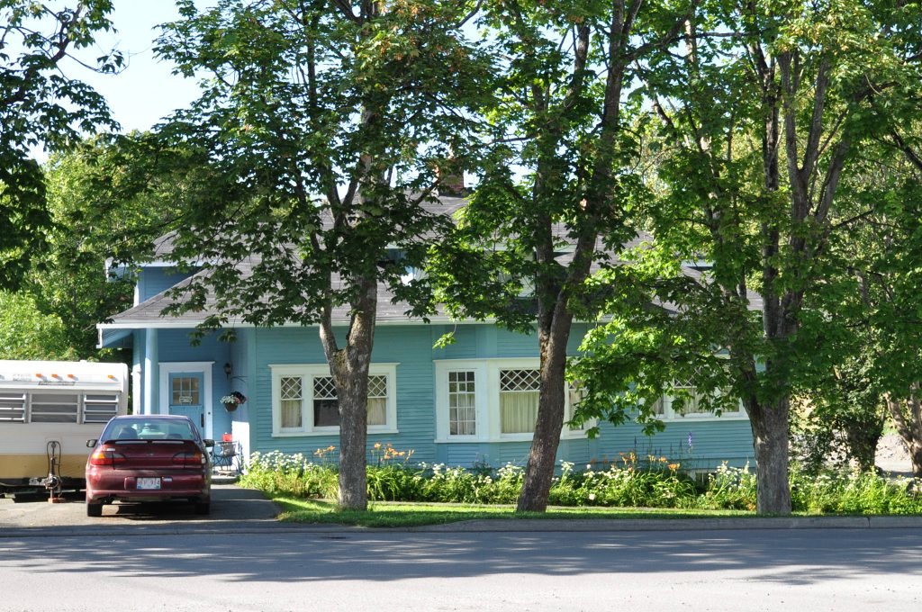 62 Water Street, Carbonear, Newfoundland.